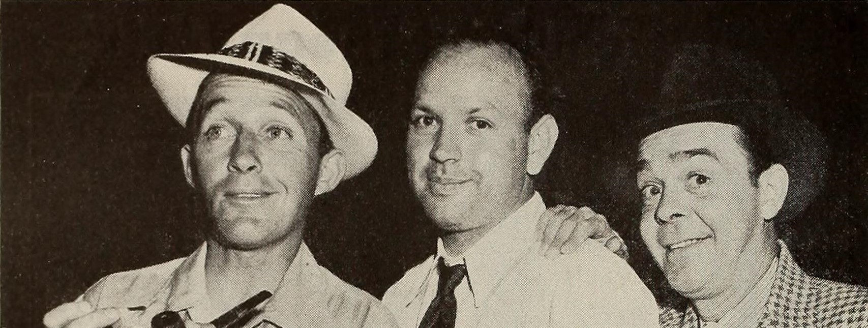 Photo of The Rhythm Boys taken during their reunion on radio in 1943